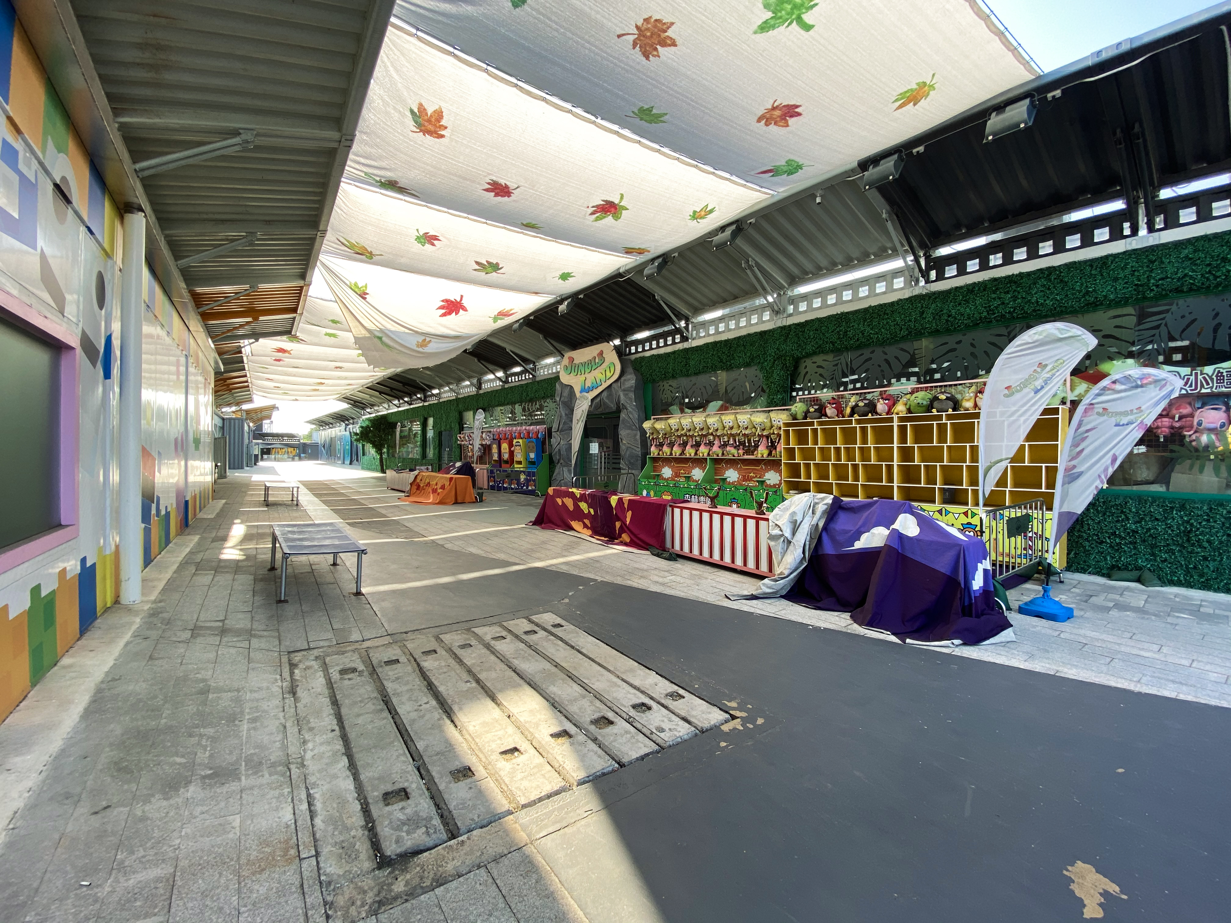 San Tin The Boxes Game stall